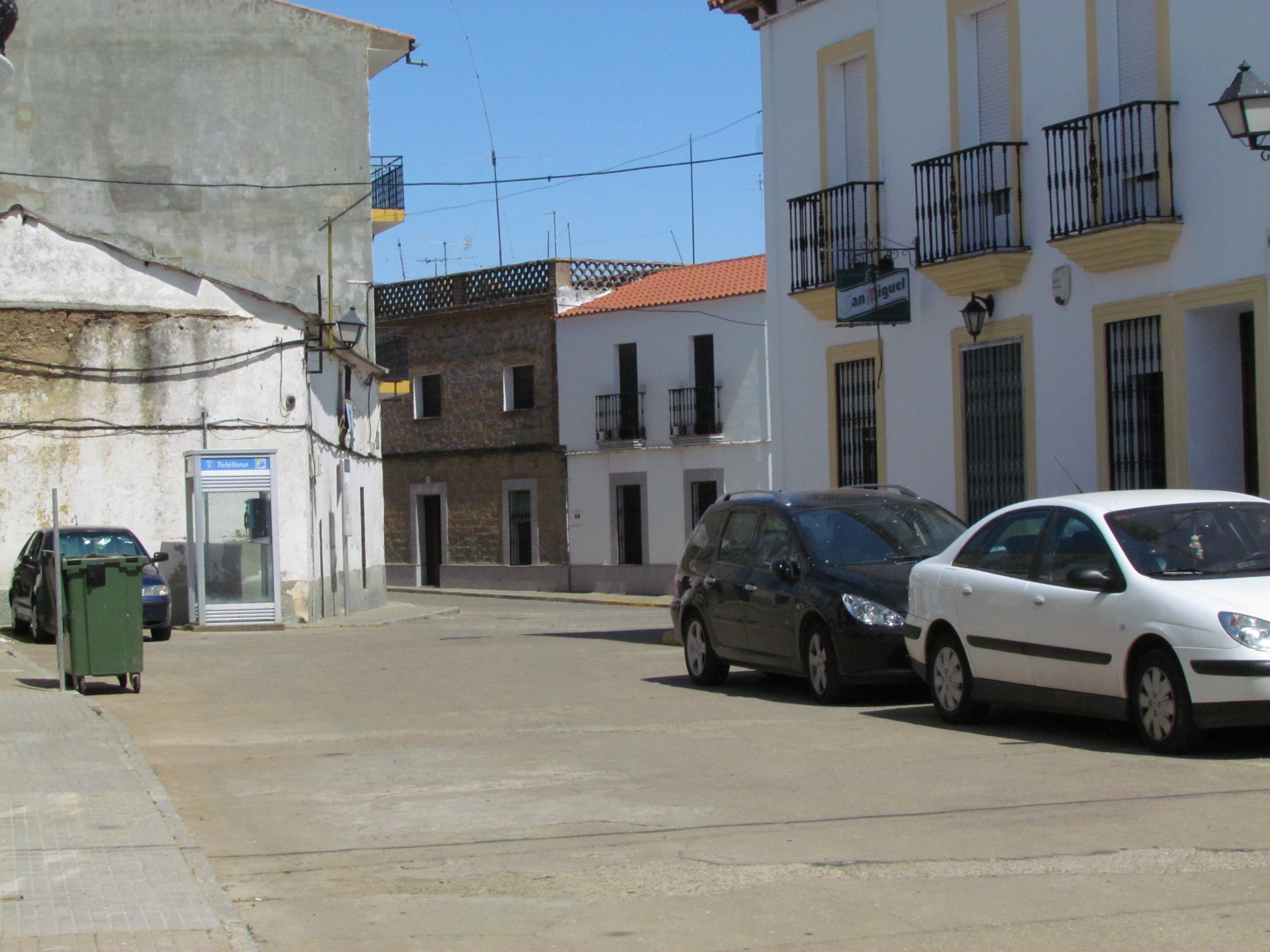 General Primo de Rivera Road